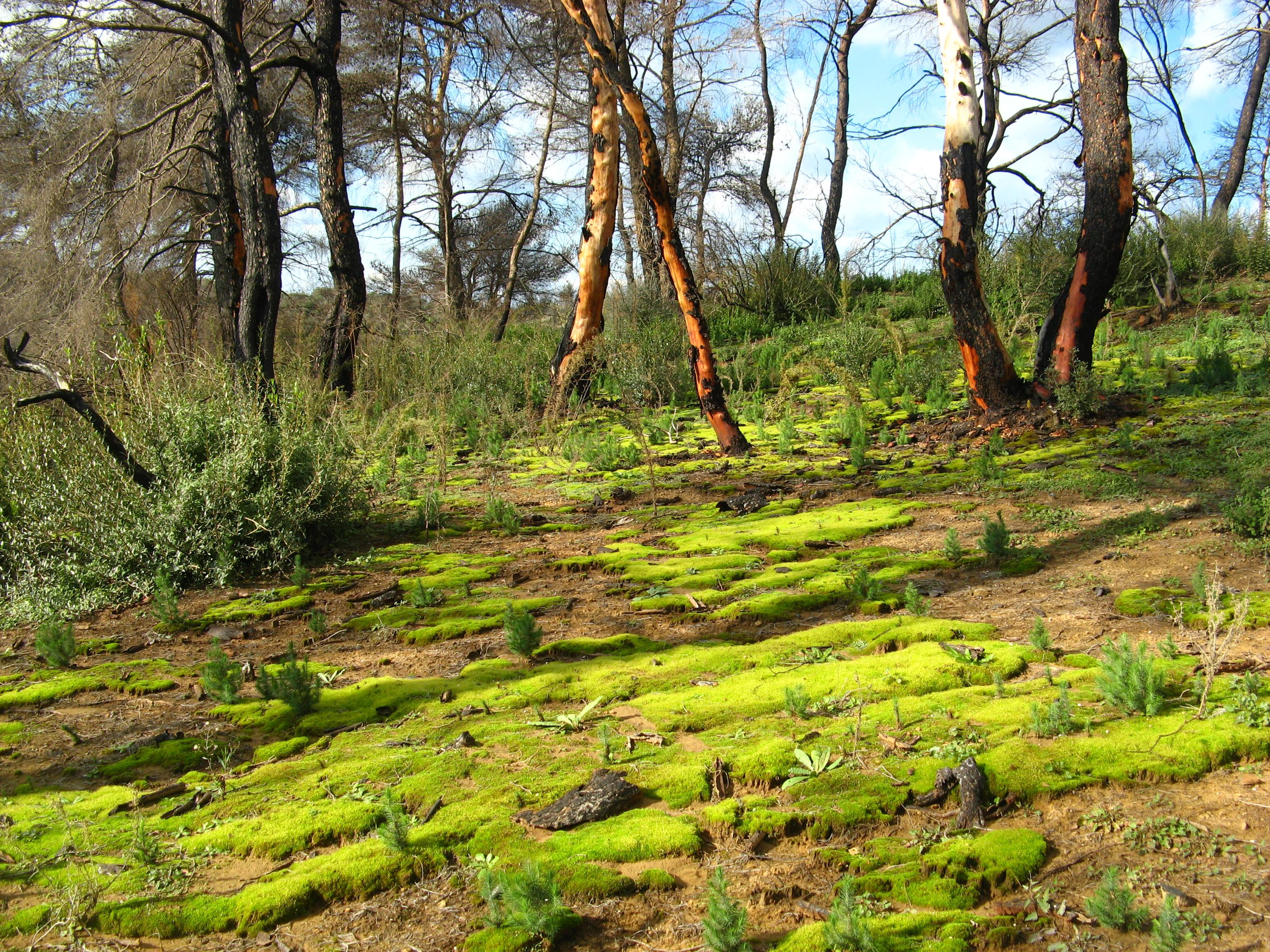 This scene shows small pine regrowth near the village of Koliri following the wildfires of 2007. Koliri is one of the biggest villages near Pyrgos, Greece, in the prefecture of Ilia.